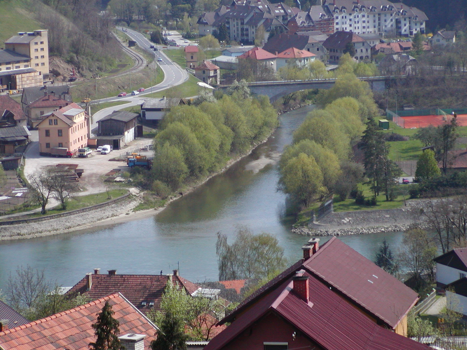 The confluence of Meža and Drava rivers in Dravograd